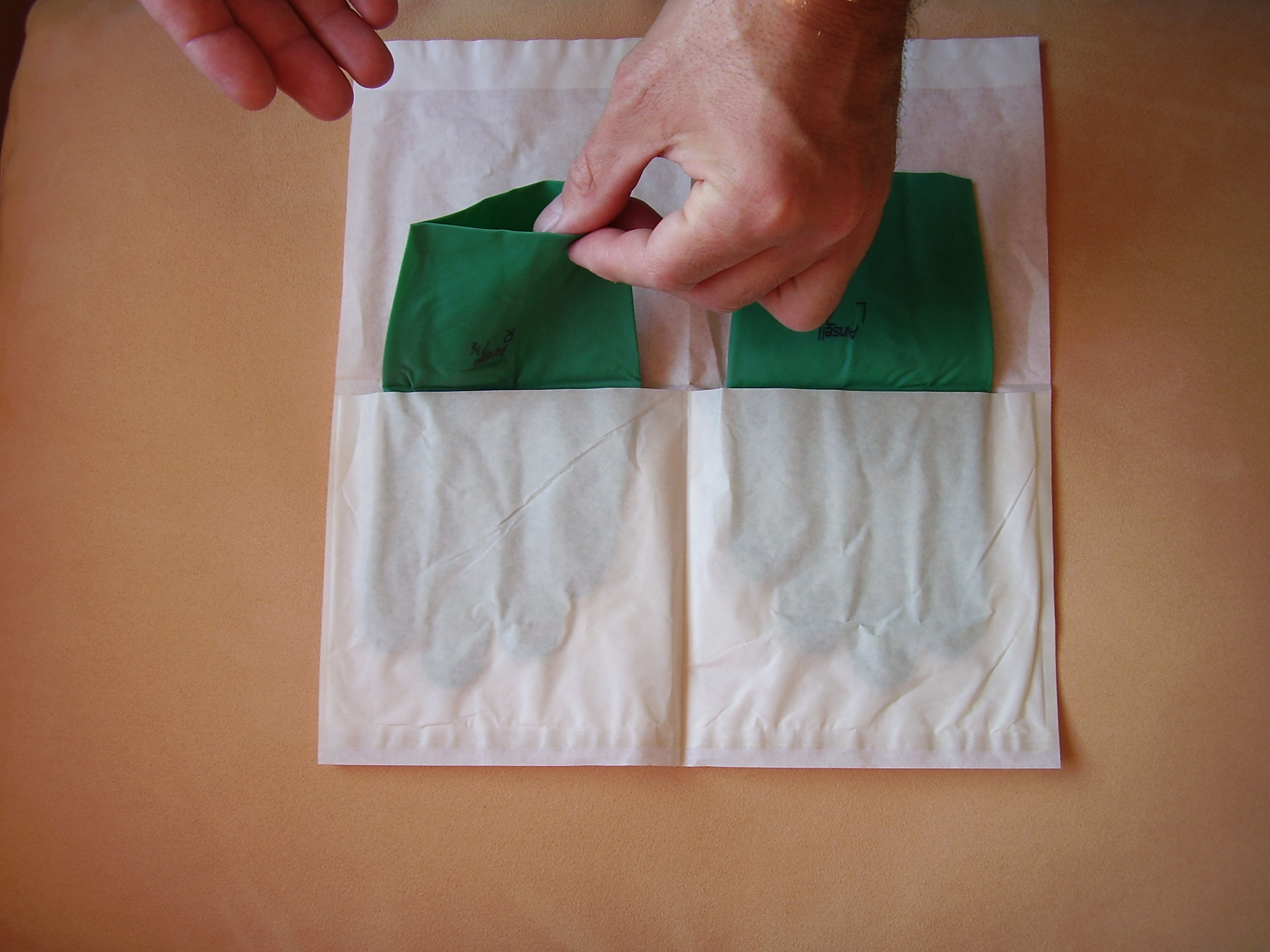 Disposable gloves; surgical gloves; chirurgische Handschuhe; steril; Latexhandschuhe